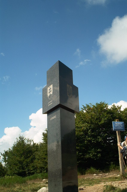 Polish-Slovak-Ukrainian Triplex